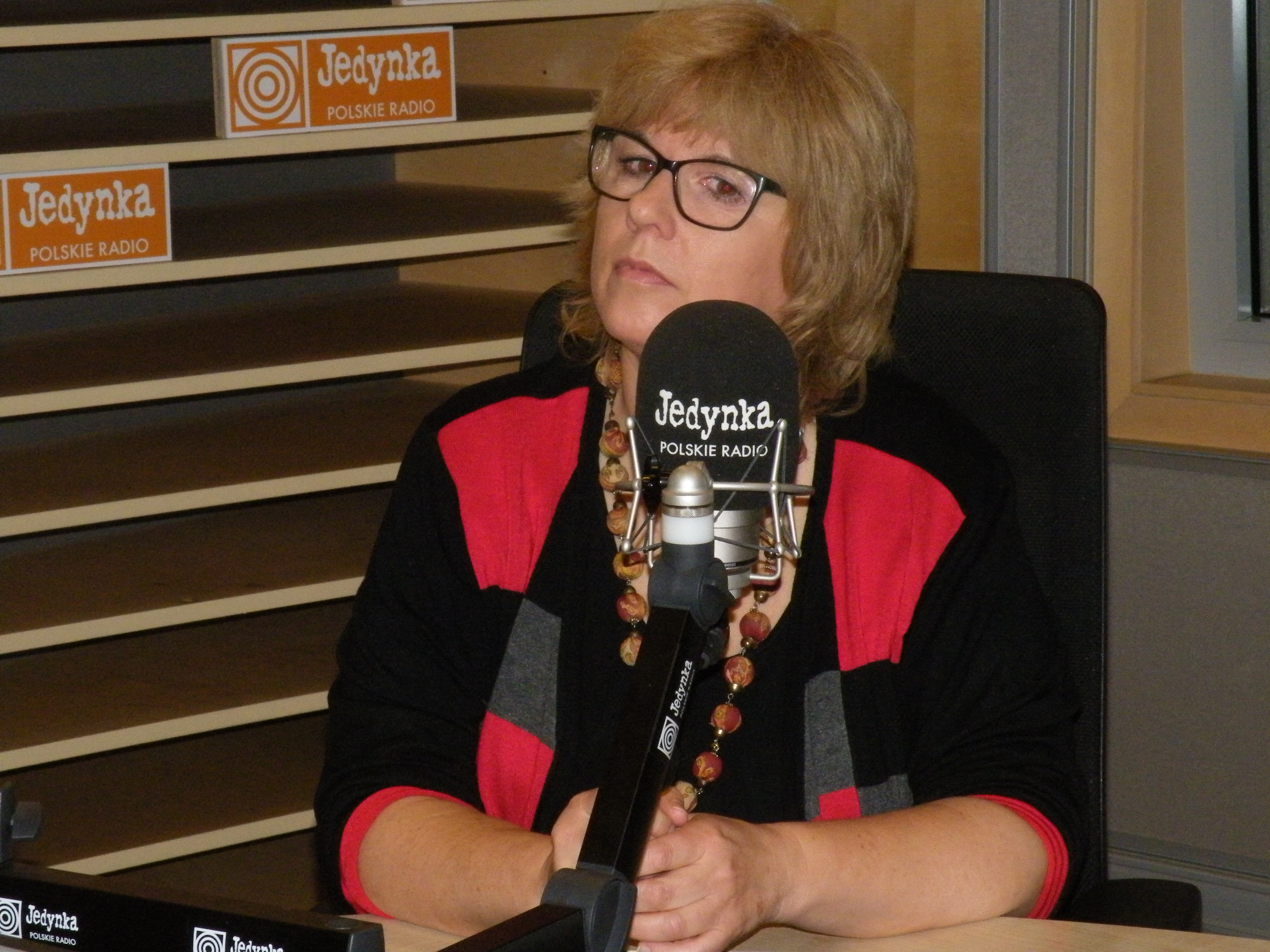 Faustyna Toepliz-Cieślak, Polish radio journalist and theatrologist